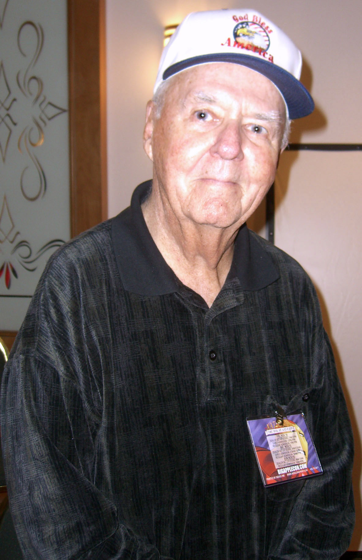 Comics creator Joe Sinnott at the November 2008 Big Apple Convention in Manhattan. This photo was created by Luigi Novi. It is not in the public domain, and use of this file outside of the licensing terms is a copyright violation.